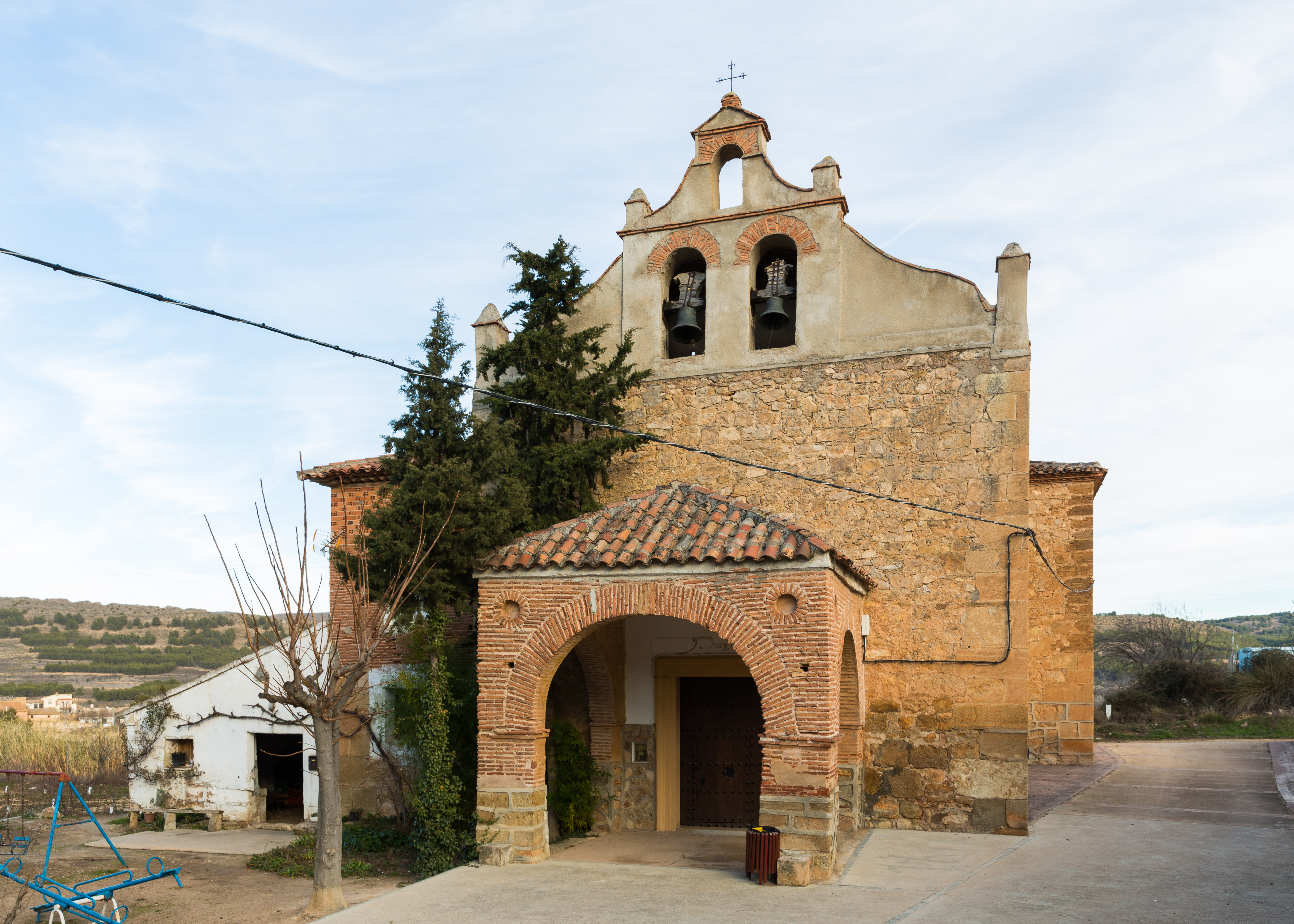 Hermitage of the Virgen de los Alvares, Nuévalos, Zaragoza, Spain